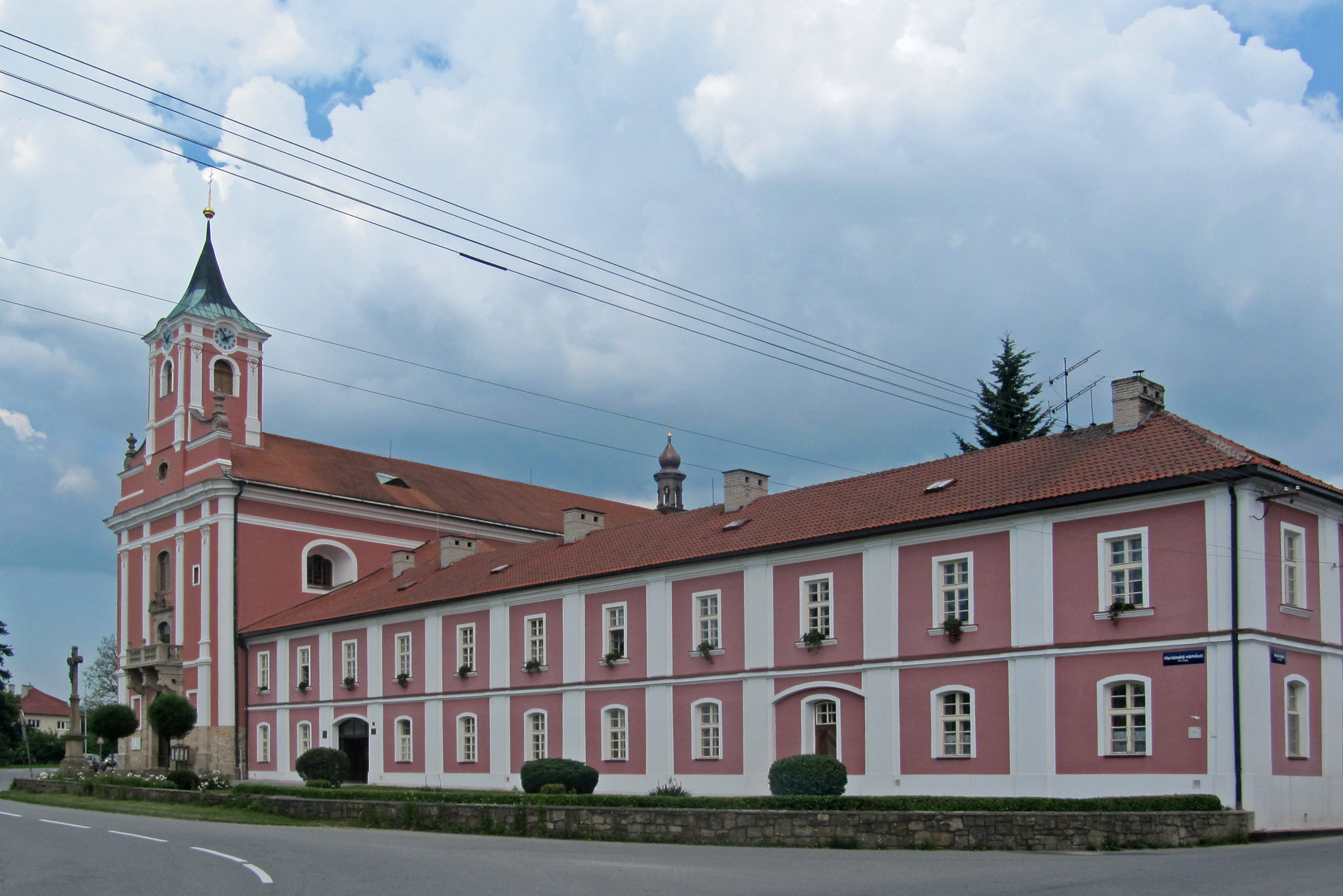 Zlín, part Štípa, Czech Republic. Pilgrimage Church of the Nativity of the Virgin Mary and convent Carmelite Sisters of the Congregation.